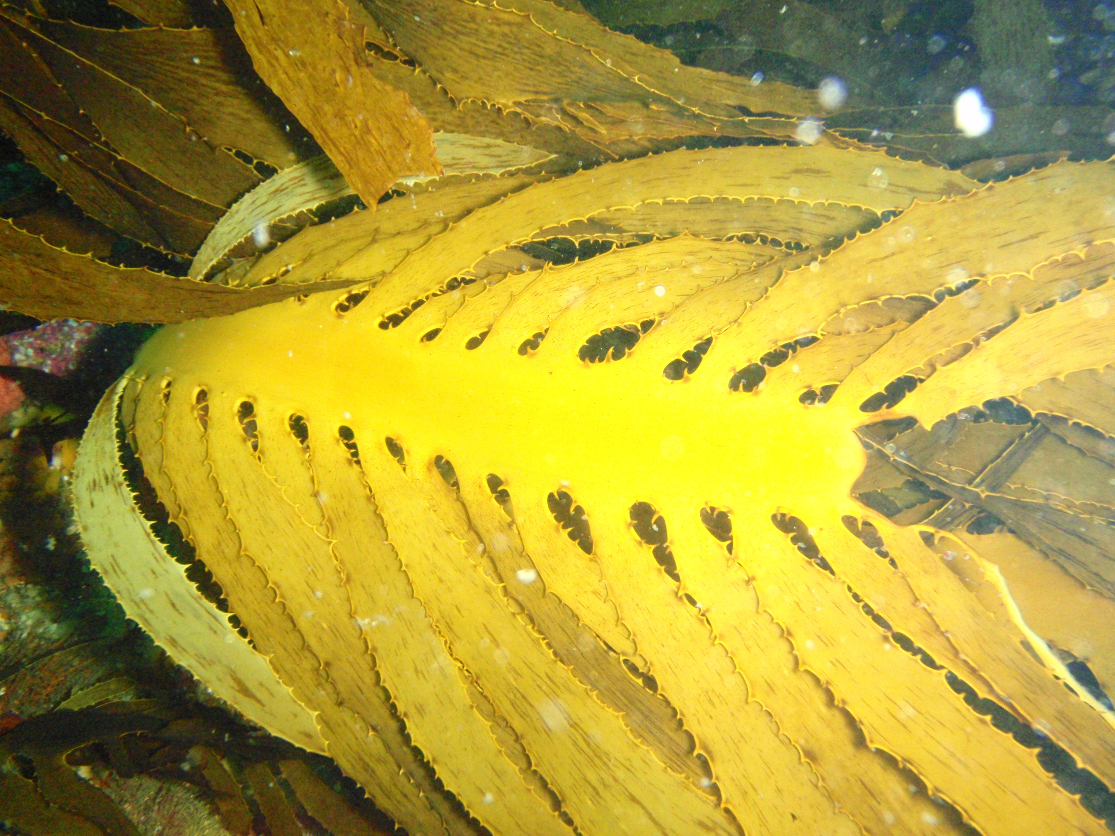 Kelp (Ecklonia radiata?) at Middle Bank, Tsistikamma National Park MPA